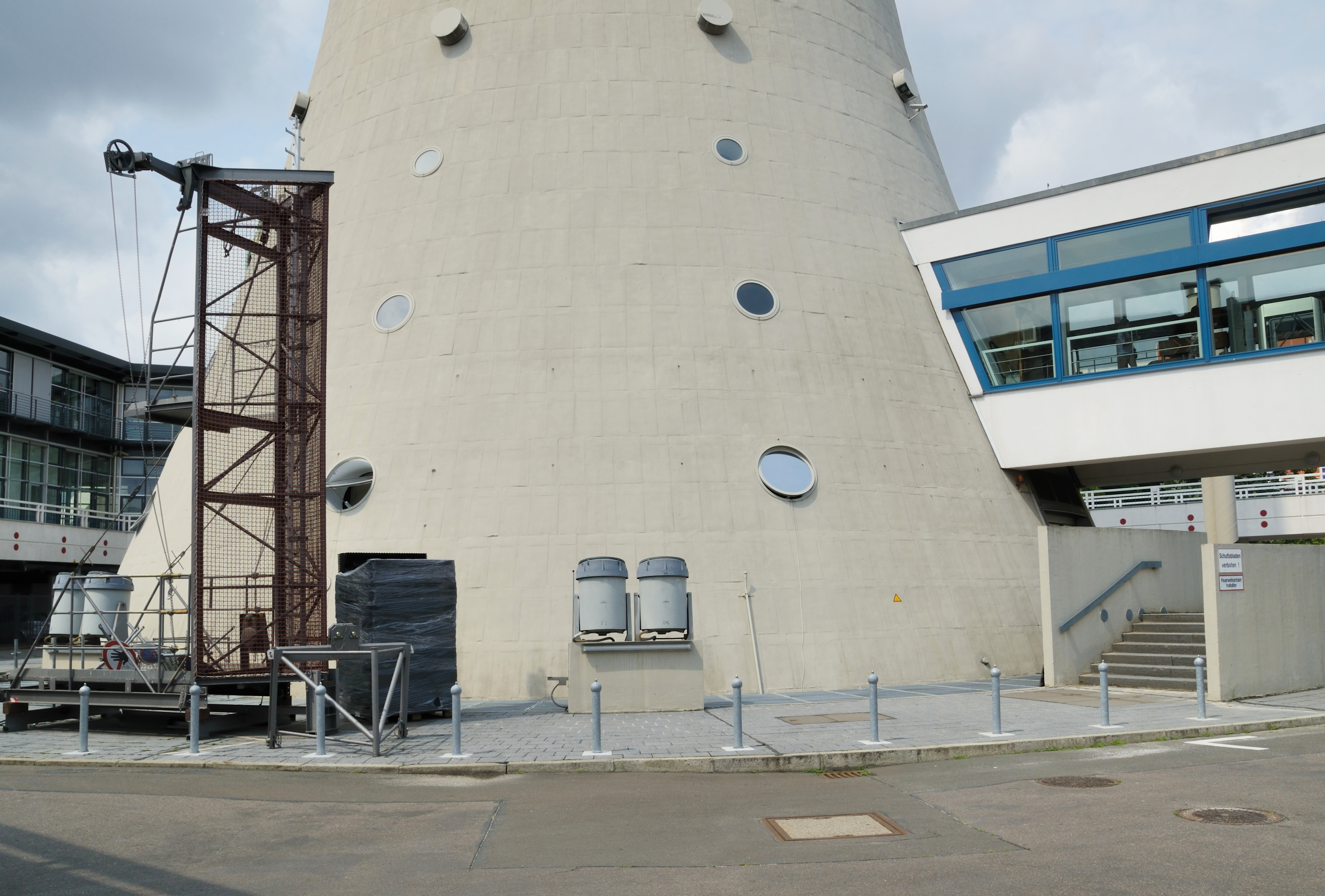 Berlin: Television Tower